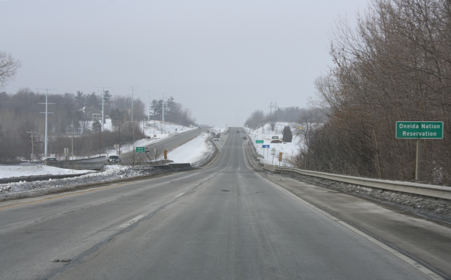 Looking west at the sign designating the Oneida Nation of Wisconsin on Wisconsin Highway 29.